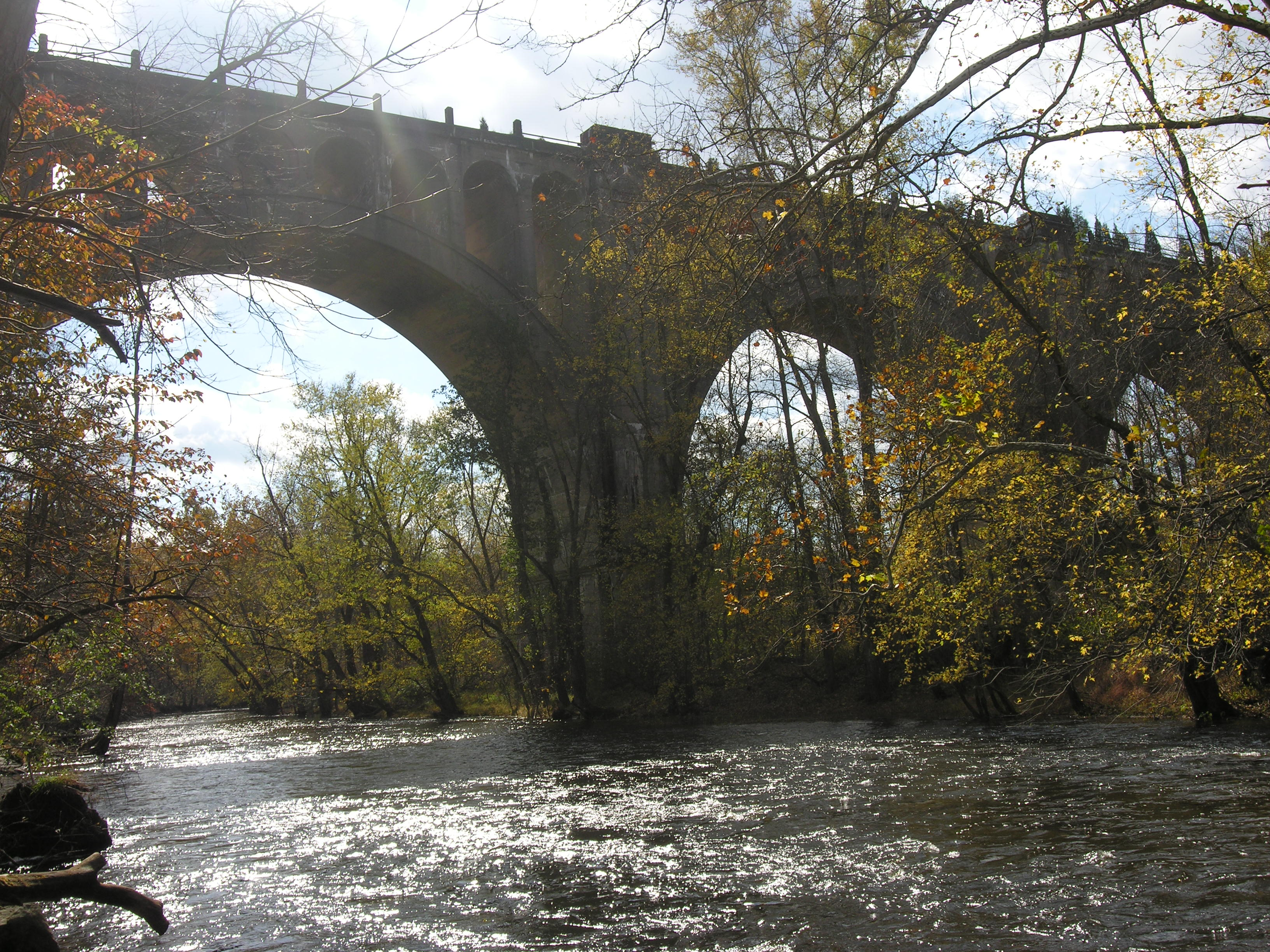 Sequestered in the woods near Hainesburg is the Paulinskill Viaduct along the Lackawanna Cut-Off, the former main line of the Delaware, Lackawanna and Western Railroad in Knowlton Township. The Viaduct is 115 feet (35 m) tall and 1,100 feet (335 m) long, and was the largest reinforced concrete structure in the world when it was completed in 1910. It is also known as the Hainesburg Viaduct.